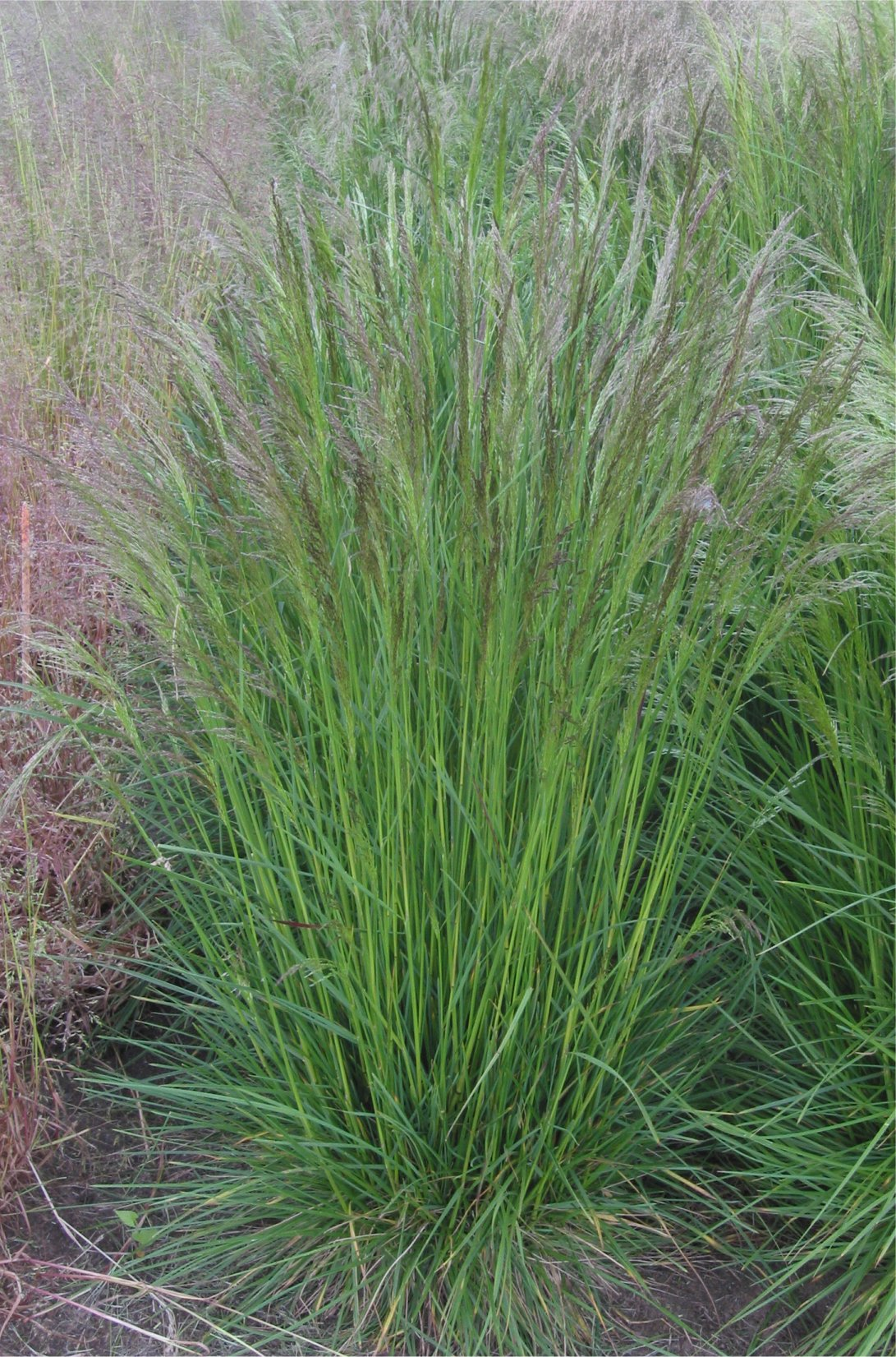 (Ruwe smele bloeiend) flowering Deschampsia cespitosa